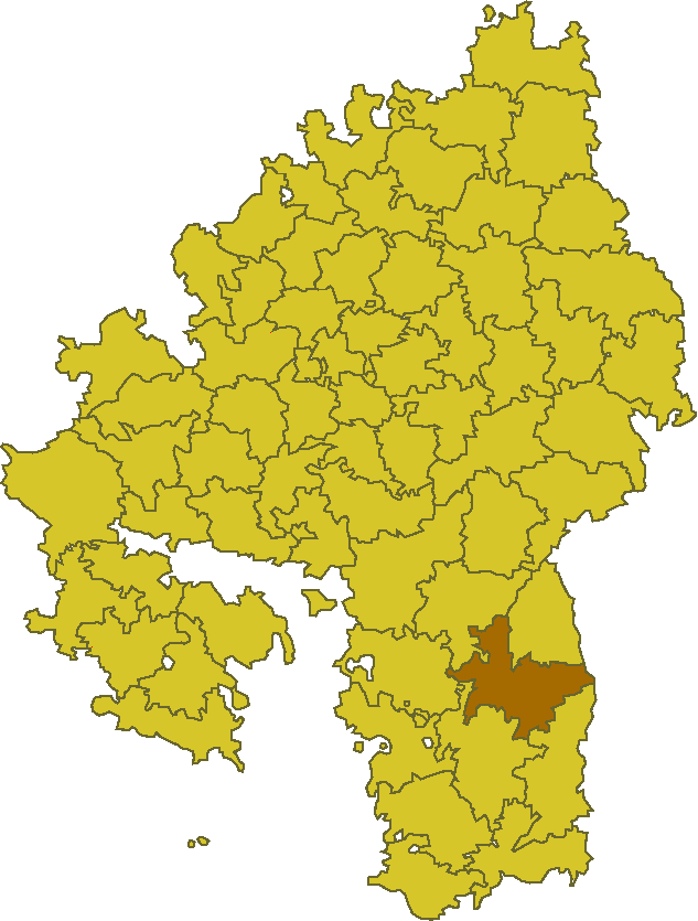 Map of administrative subdivisions (Oberämter) in Württemberg as of 1835, Oberamt Biberach marked in brown.